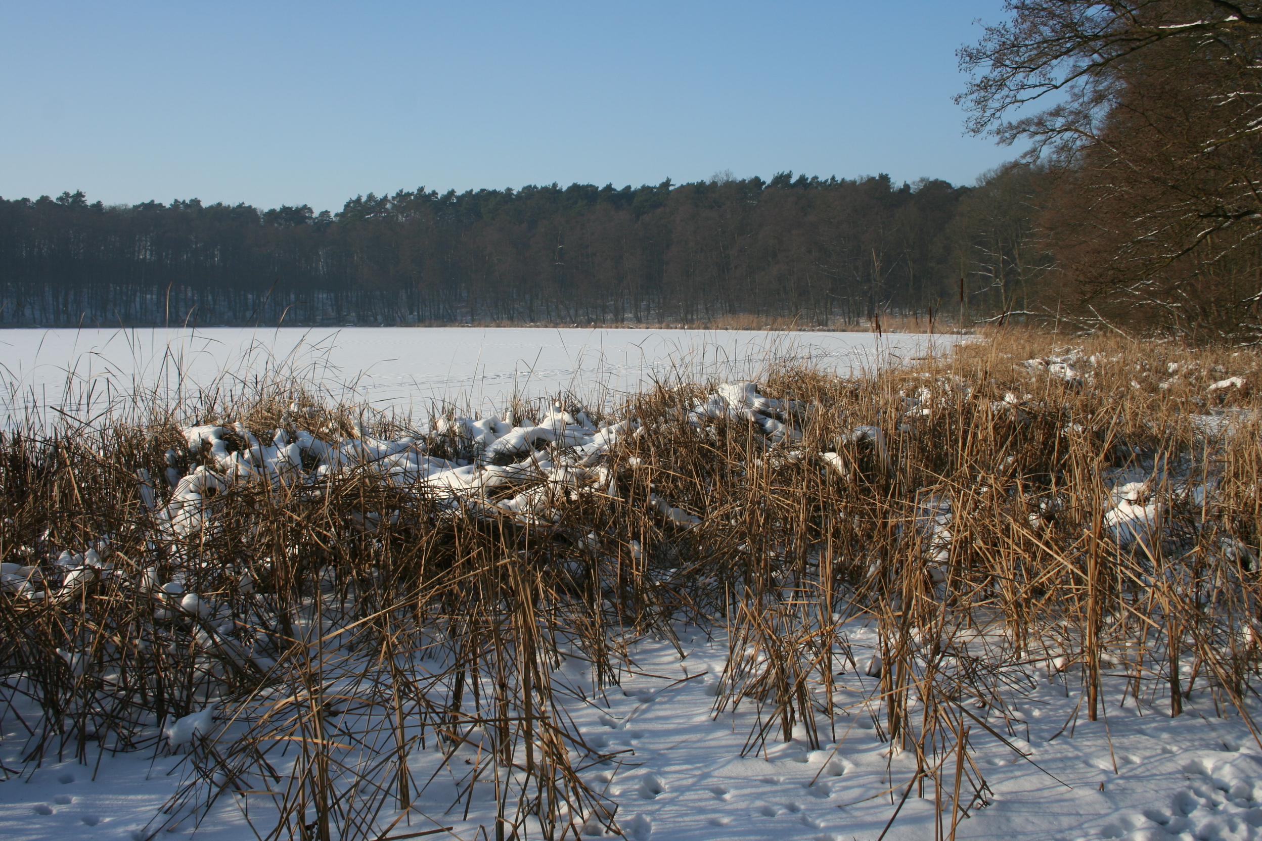 Kludno lake near Międzychód